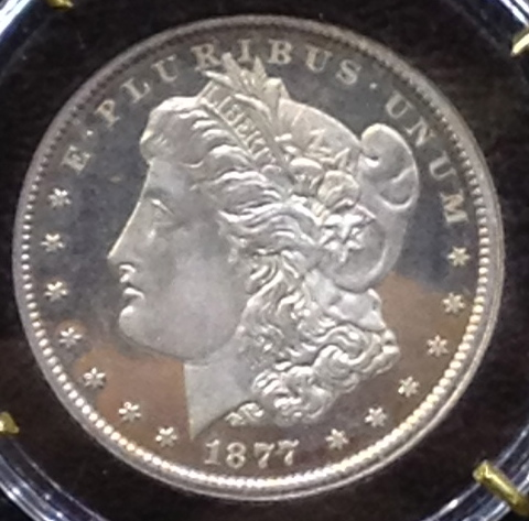 1877 pattern half dollar with design later adopted for the Morgan dollar.